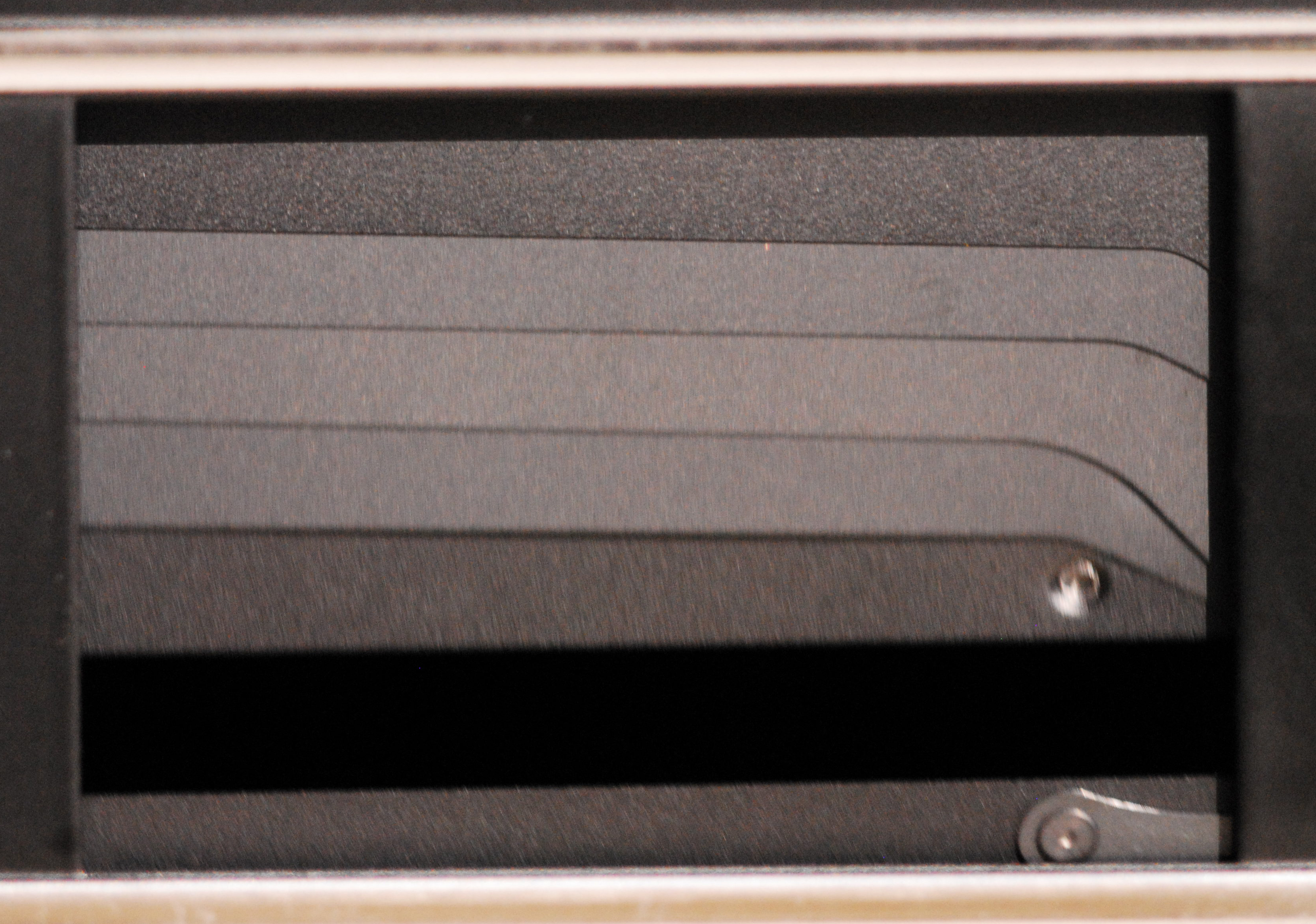 Taken by MadMaxMarchHare (uploader). A focal plane shutter firing at 1/500 of a second with the "gap" clearly visible. This shutter is on a Nikon film SLR.